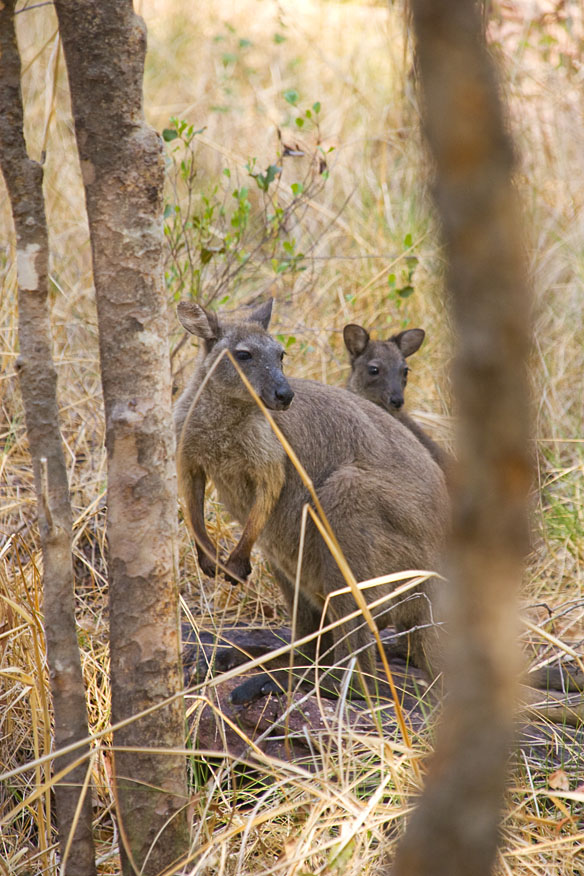 Black wallaroos (Macropus bernardus) at Nourlangie Rock in Kakadu National Park